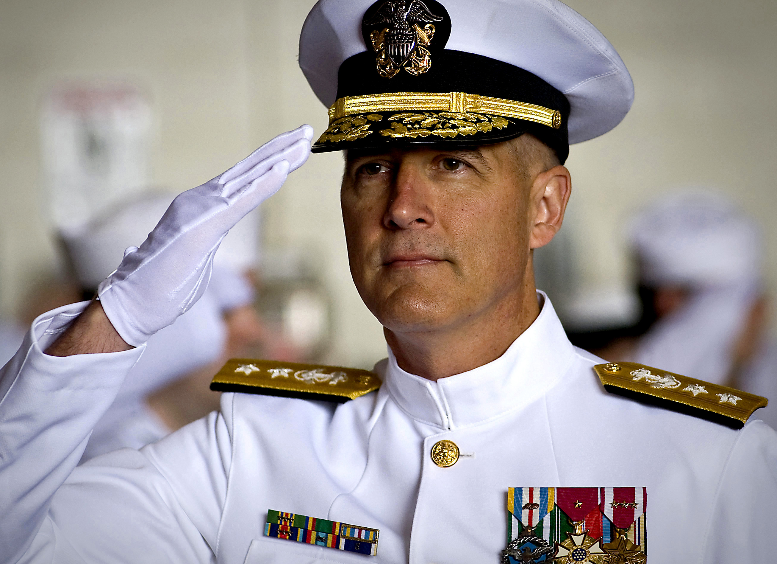 VIRGINIA BEACH, Va. (May 14, 2010) Rear Adm. Tom Meek salutes as he is piped aboard during a change of command ceremony at Joint Expeditionary Base Little Creek-Fort Story. Meek relieved Vice Adm. Denby Starling as commander of Navy Cyber Forces. (U.S. Navy photo by Mass Communication Specialist 2nd Class Joshua J. Wahl/Released)